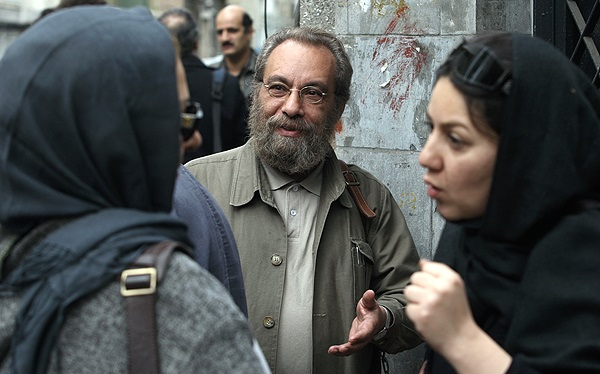 Funeral of Nemat Haghighi (9 8902120535 L600)